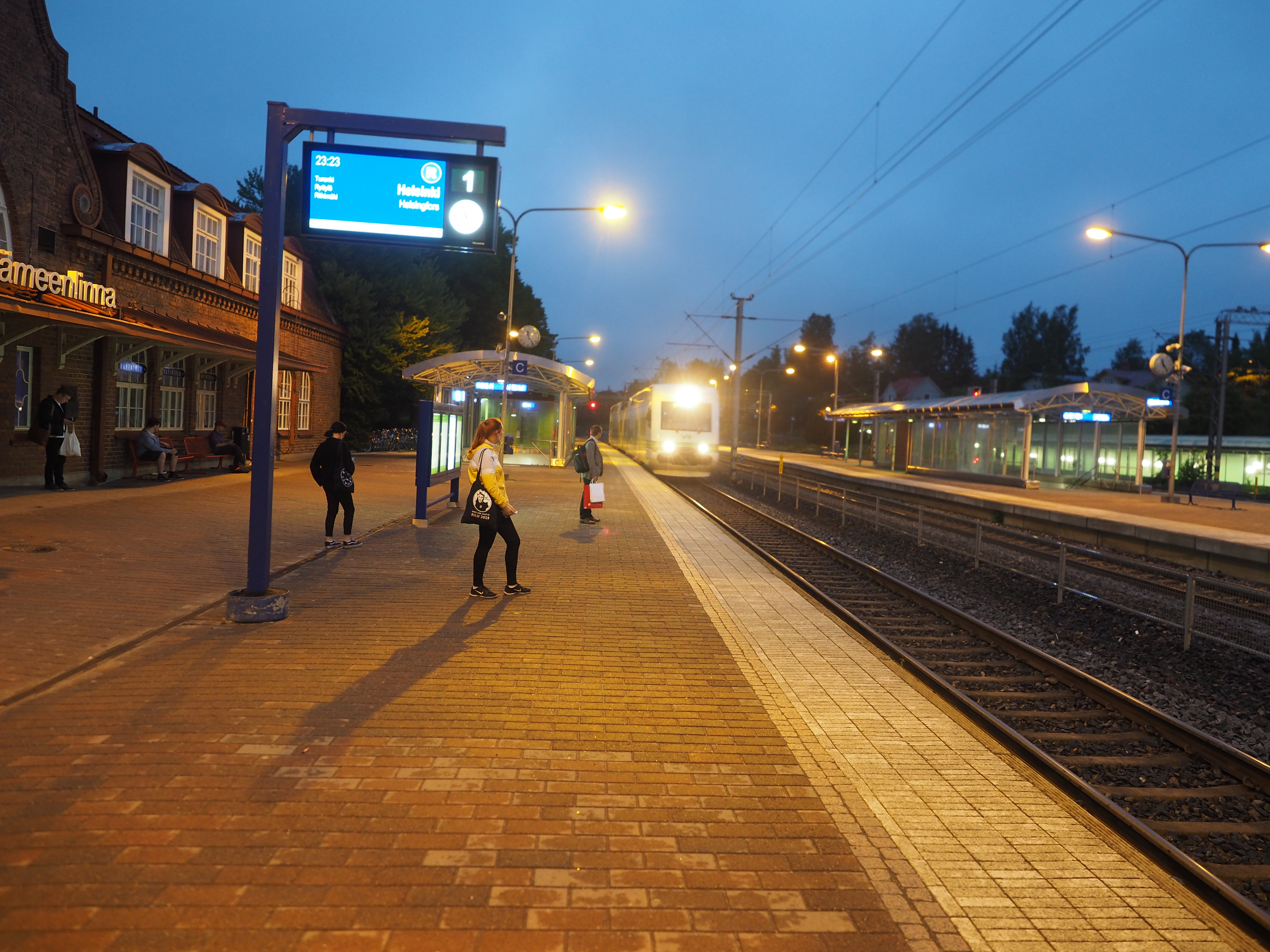 A train to Helsinki arriving at Hämeenlinna railway station in the middle of the night in June.